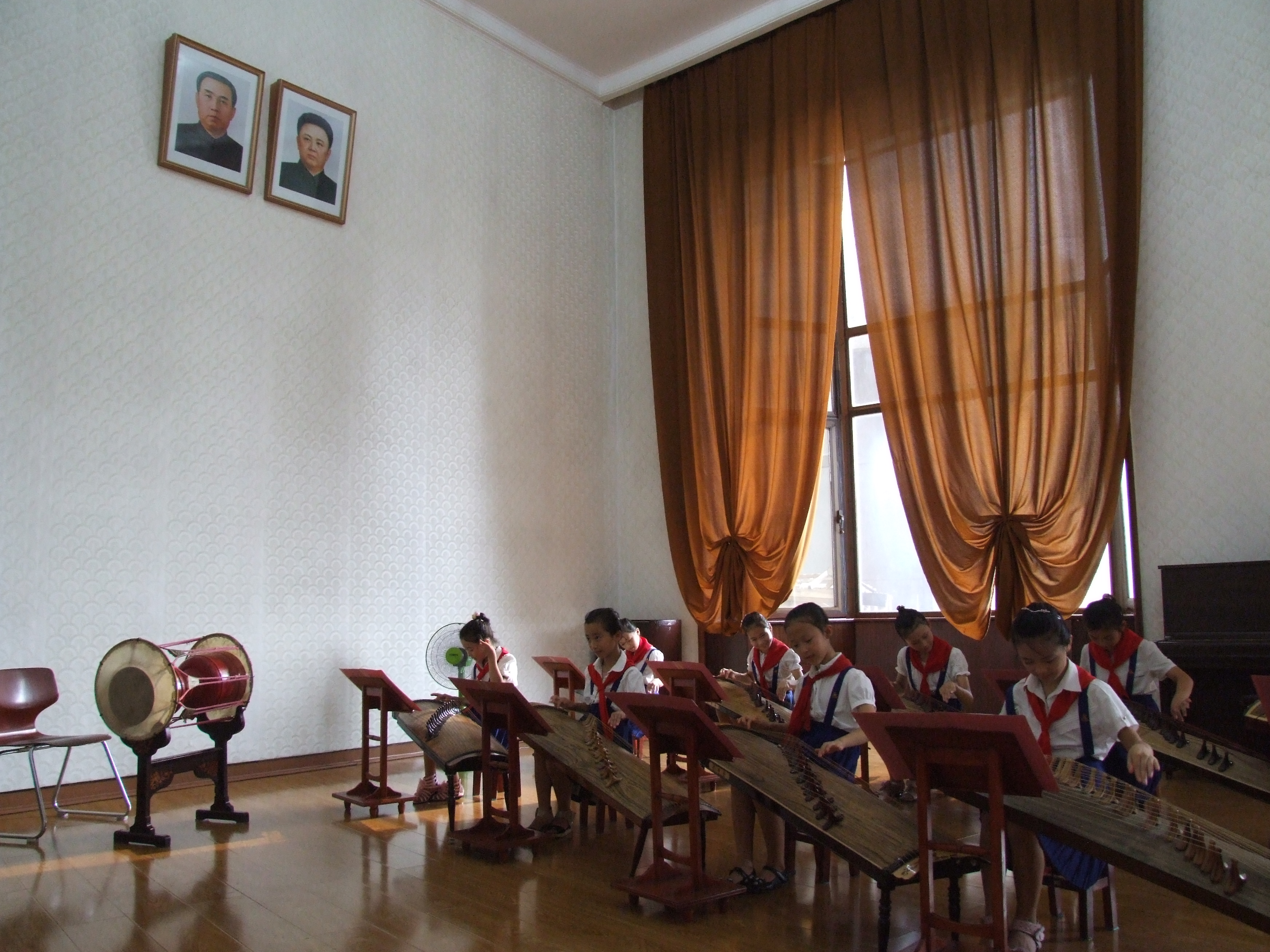 Mangyongdae Children's Palace